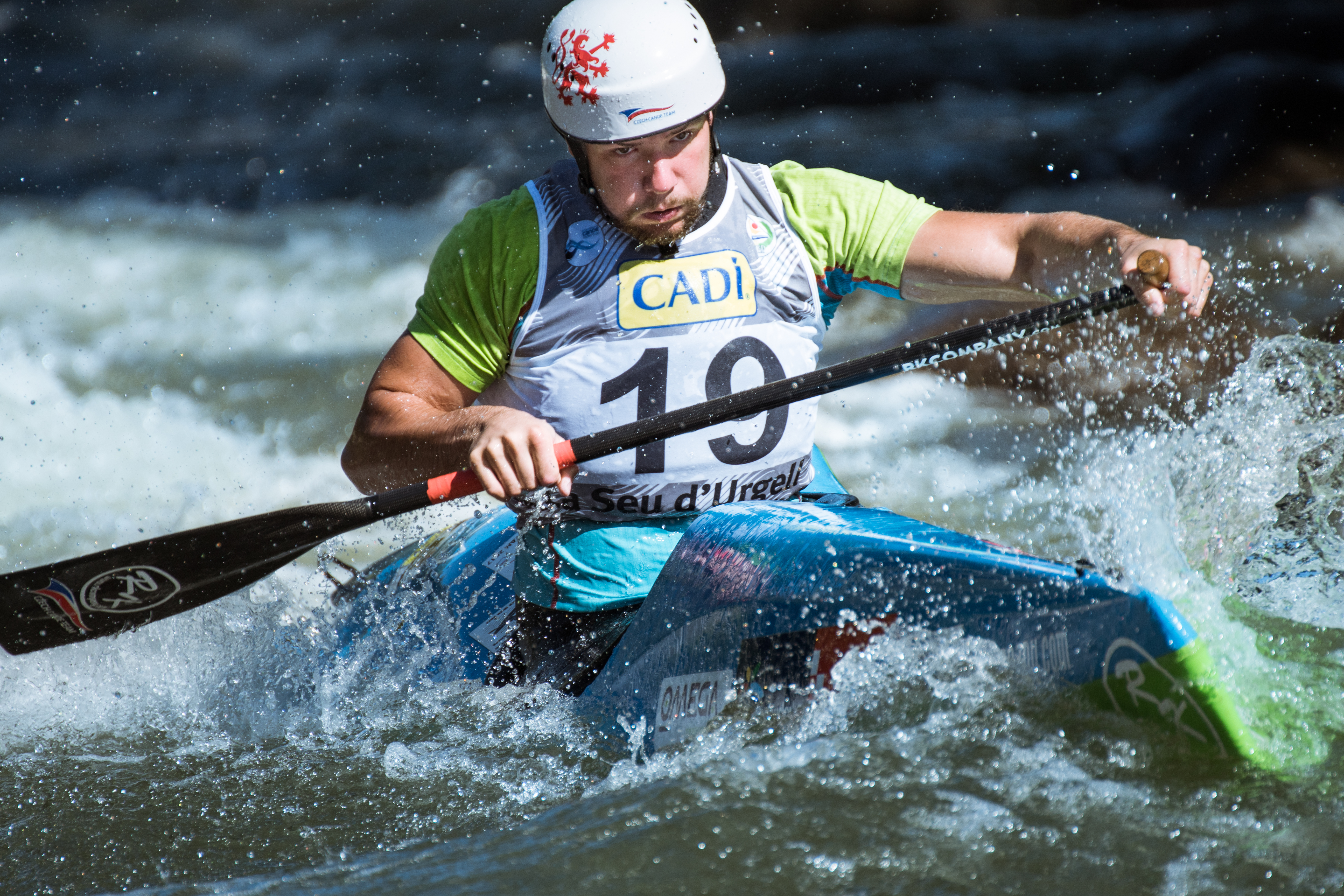 Václav Kristek during the 2019 Canoe Wildwater World Championships in La Seu d'Urgell, Spain.